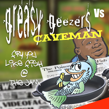 (c) 2011 i-innovate (UK) fishcover_webred